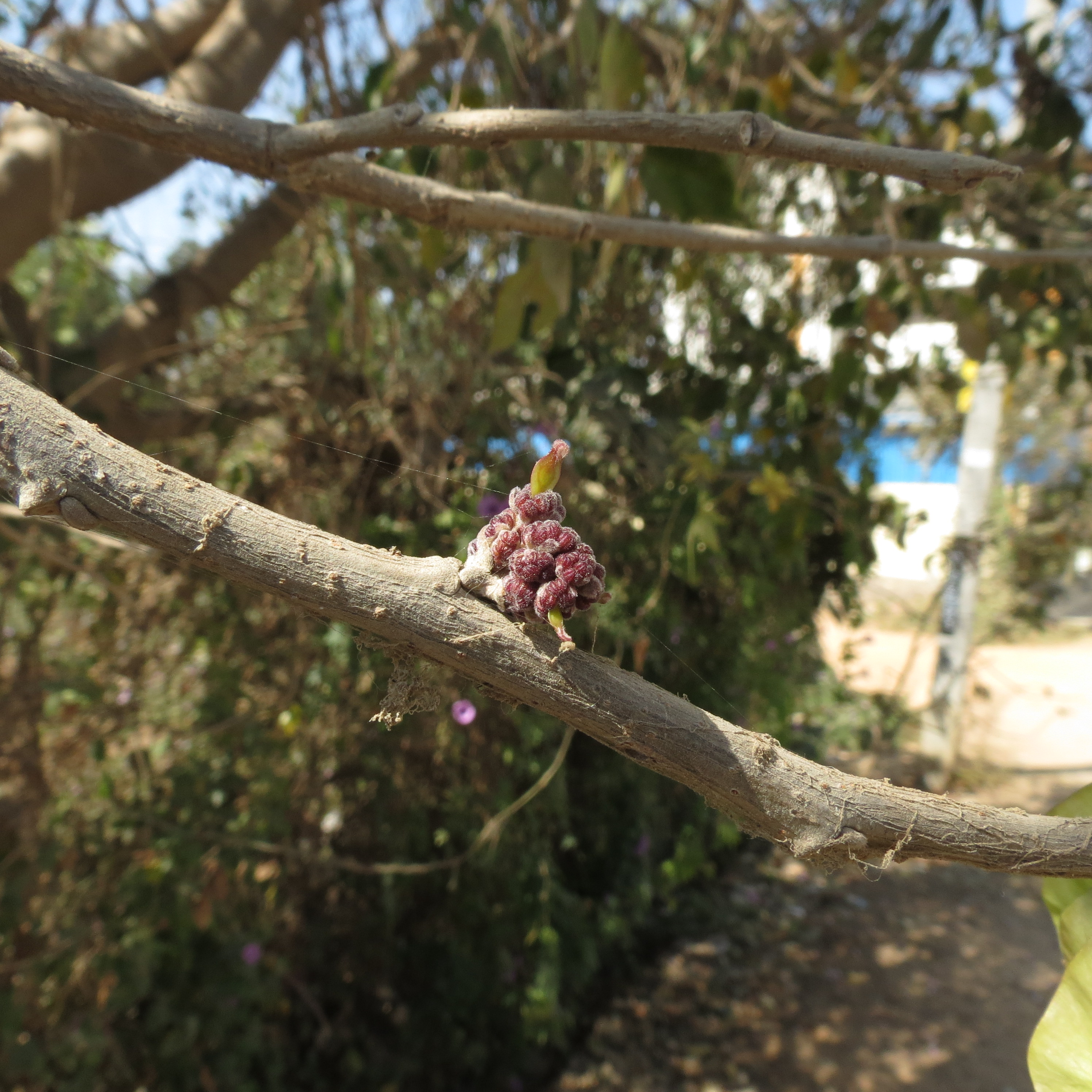 Indian Elm Tree (Holoptelia integrifolia) as a lane tree off sarjapur road near Bata showroom. 8th feb 2014